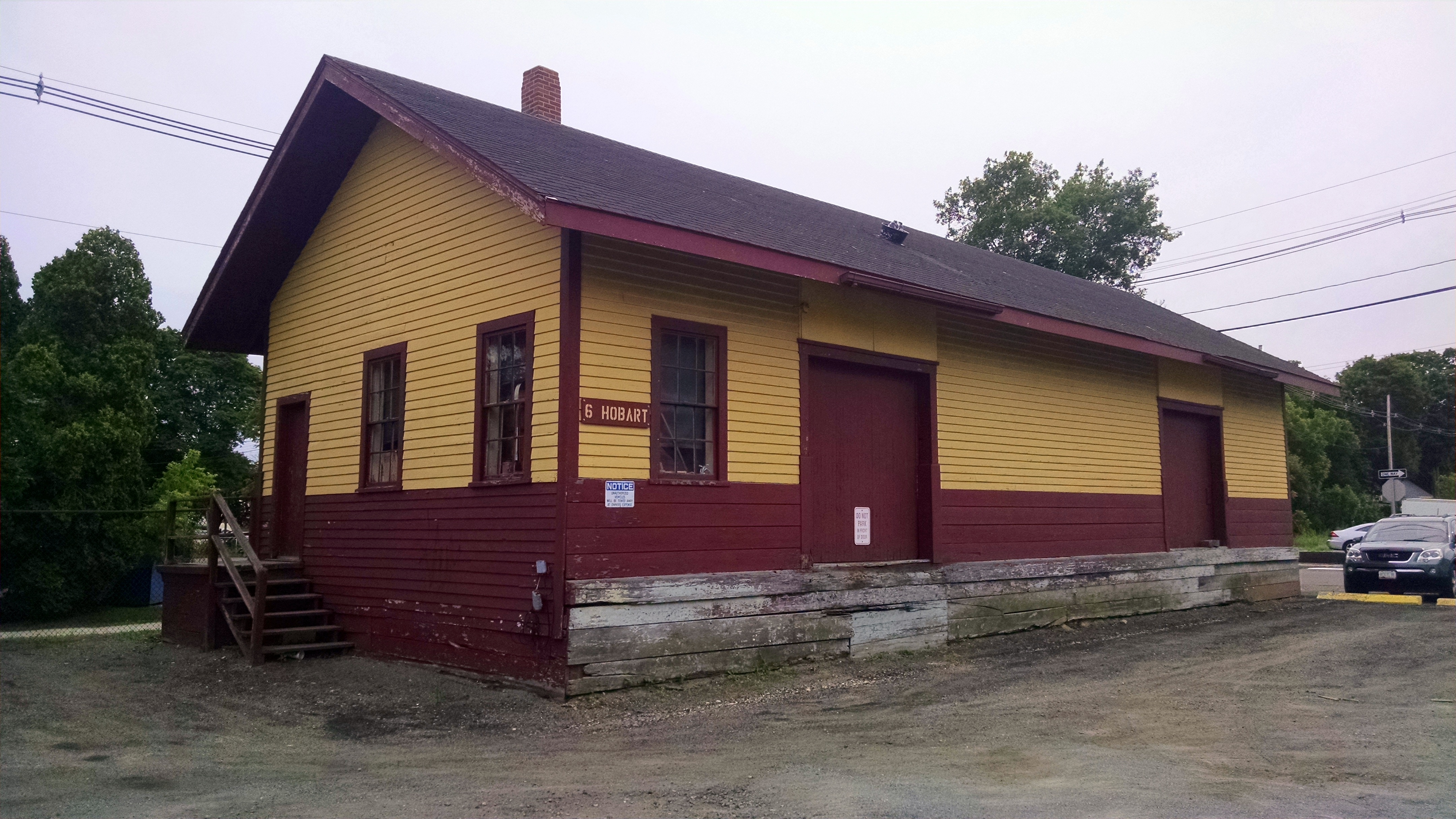 Former freight house on the Newburyport Branch at Danvers in June 2015